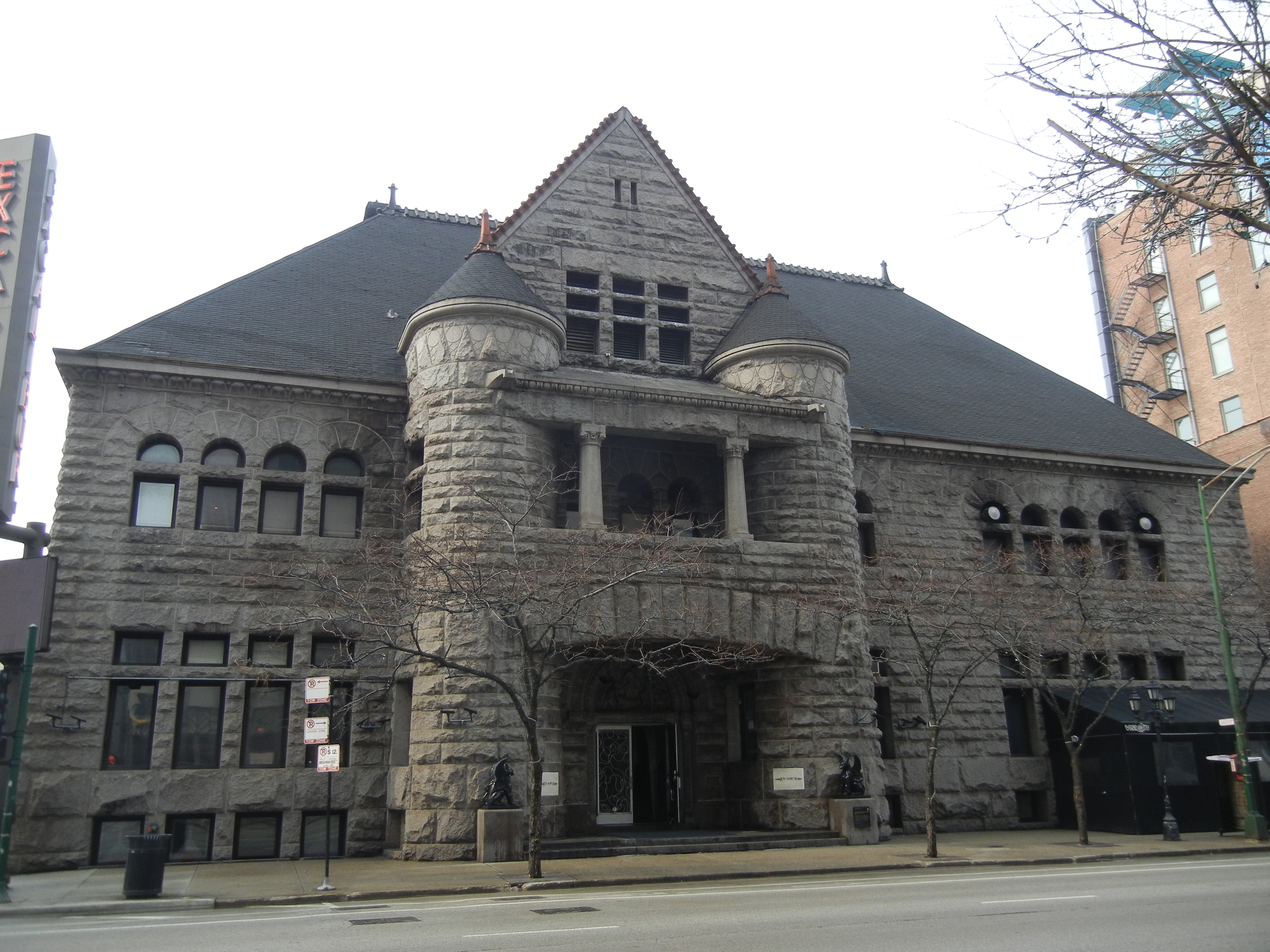 Excalibur Nightclub in Chicago, Illinois